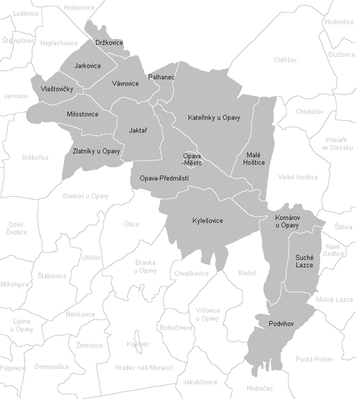 Cadastral map of Opava